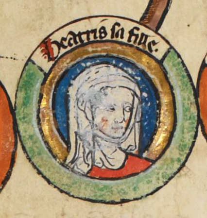 Beatrice of England